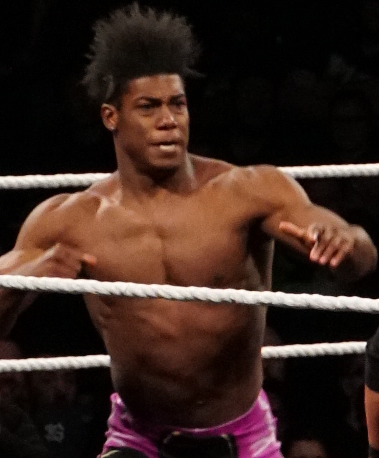 NOLA 2018 - WWE NXT Takeover - New Orleans - Adam Cole Vs EC3, Killian Dain, Lars Sullivan, Ricochet, The Velveteen Dream Adam Cole def. EC3, Killian Dain, Lars Sullivan, Ricochet, The Velveteen Dream (in 31:16) Type of match : ladder (6-way) For : NXT North American Championship (title change) Rating : ***** ( Deux semaines a Nola pour la ville et pour WWE Wrestlemania XXXIV Two weeks Nola for the city and for WWE Wrestlemania XXXIV )